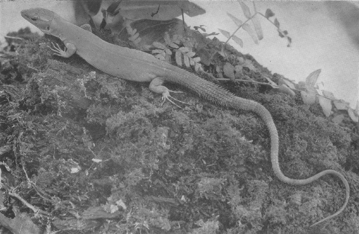 Female of Gastropholis echinata